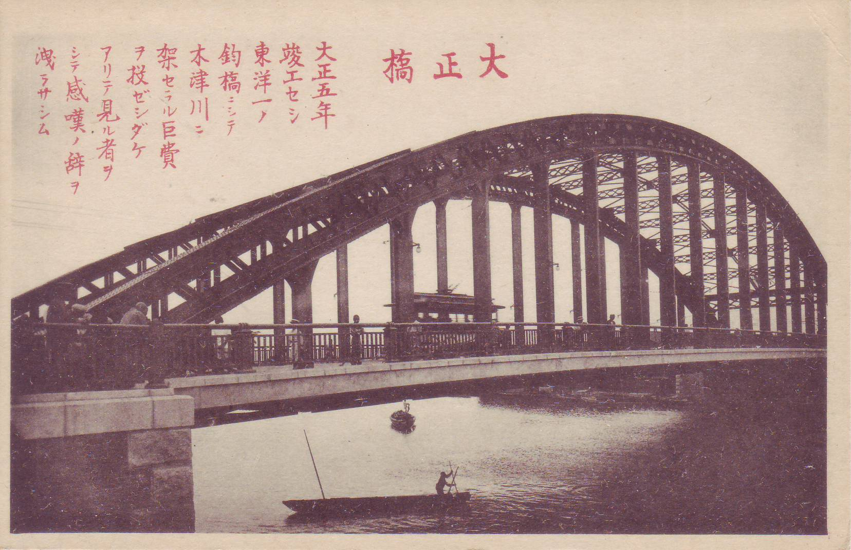 Postcard of Taisho-bashi, a bridge in Osaka (1916-1969)